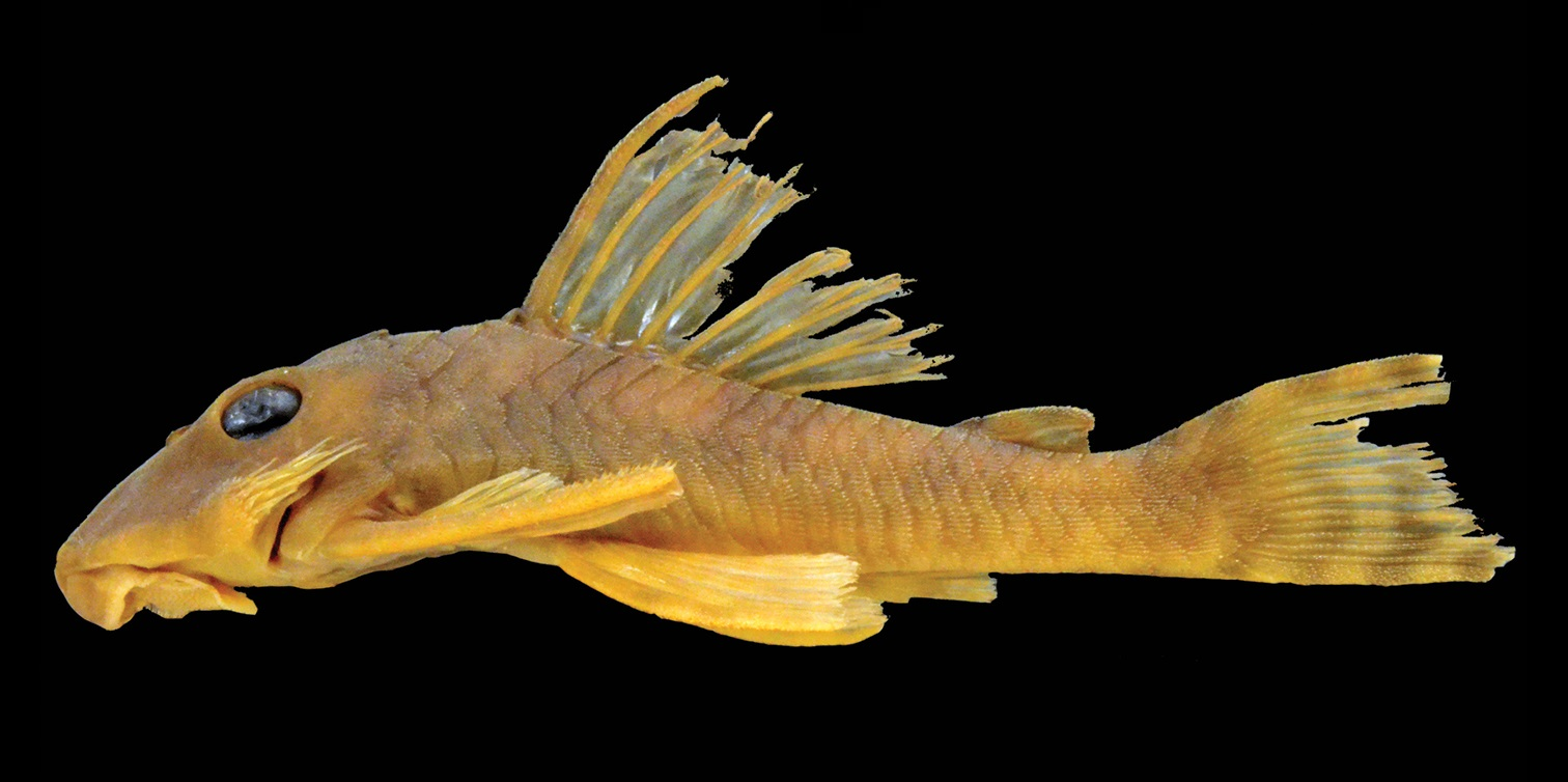 Lateral view of holotype of Peckoltia greedoi MCP 21972, 77.8 mm SL.